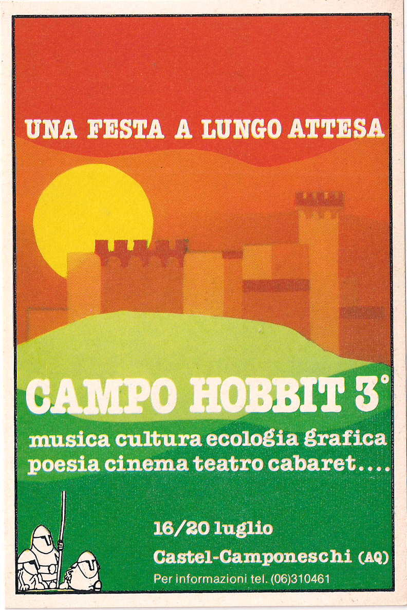 Postcard of Hobbit Campus # 3